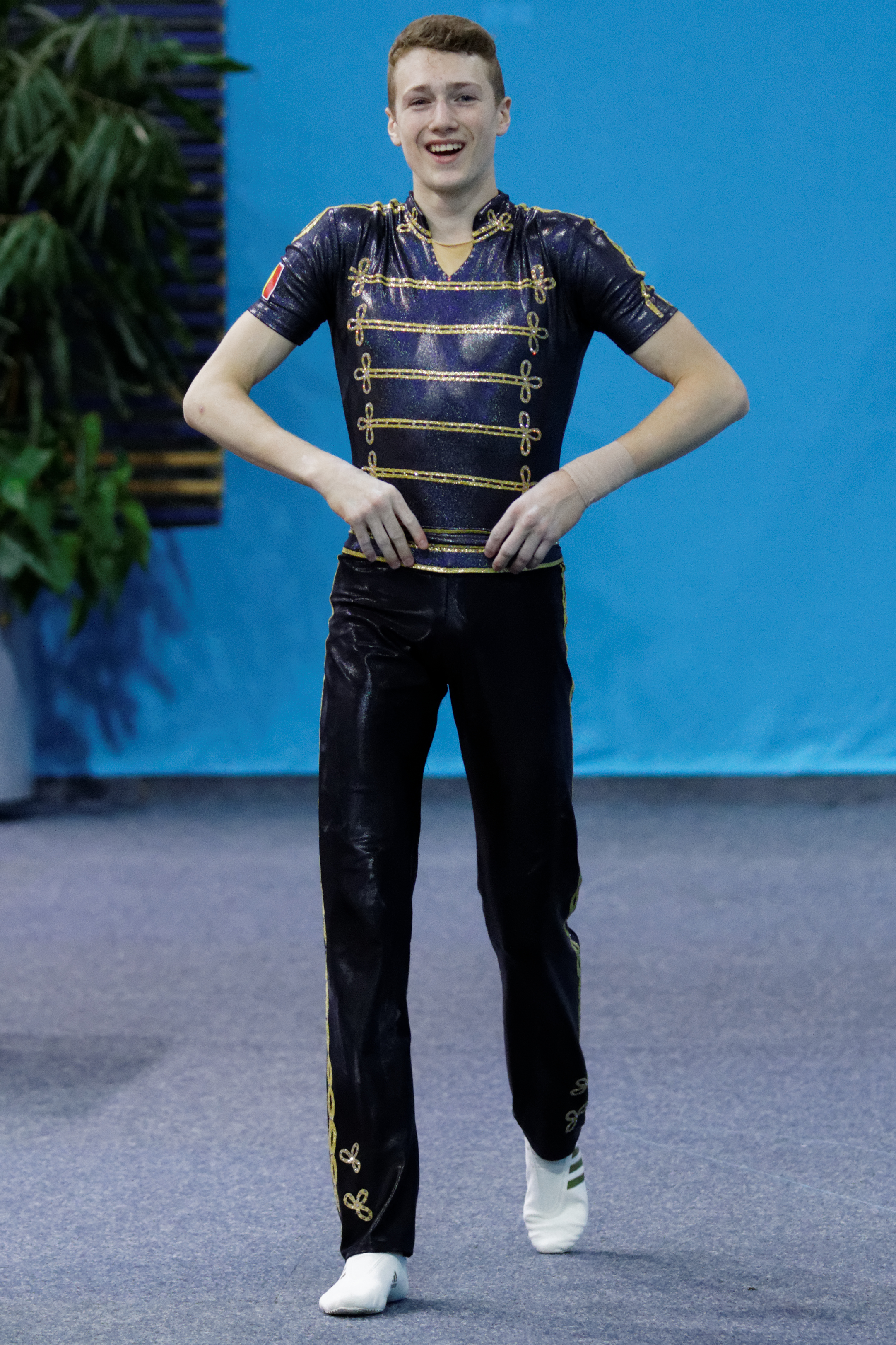 2014 Acrobatic Gymnastics World Championships, 10th-12 July, Levallois-Perret, France. Qualifications: men's pair. Belgium.